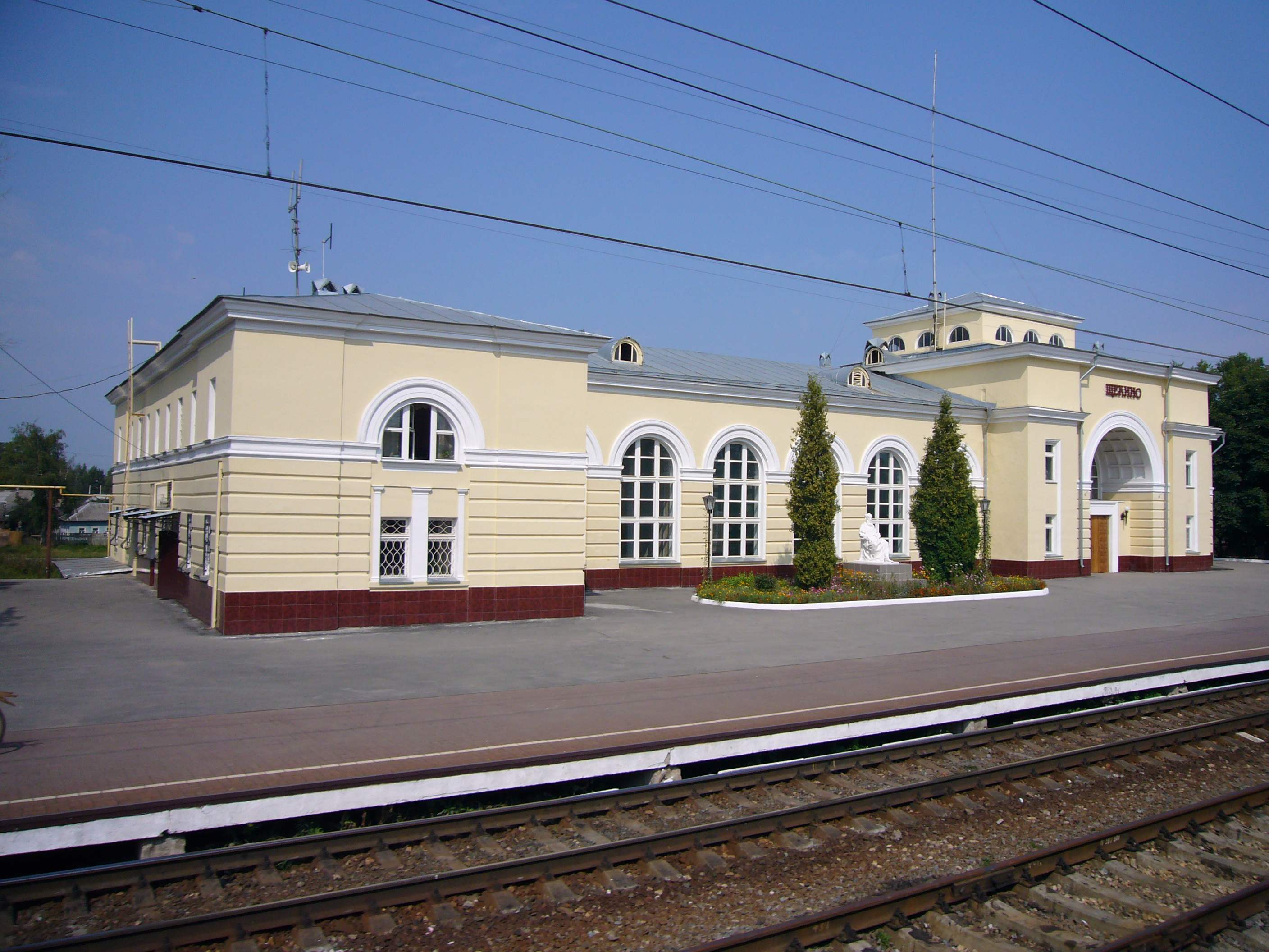 Railway Station of Shchyokino, Tula Oblast, Russia